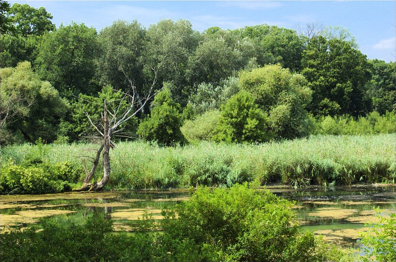 Protected landscape area Marchauen